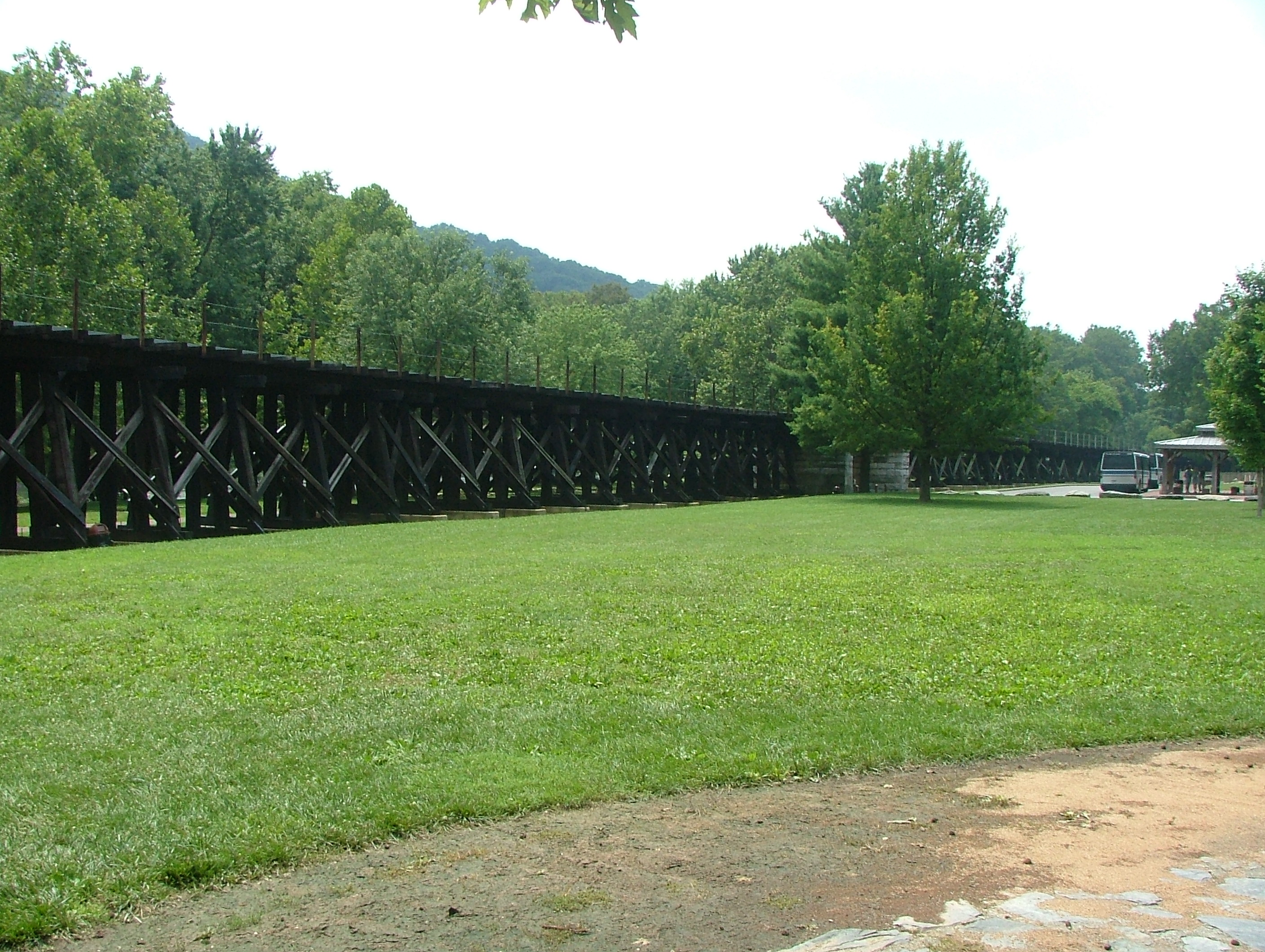 Harper's Ferry: Winchester and Potomac Railroad trestle